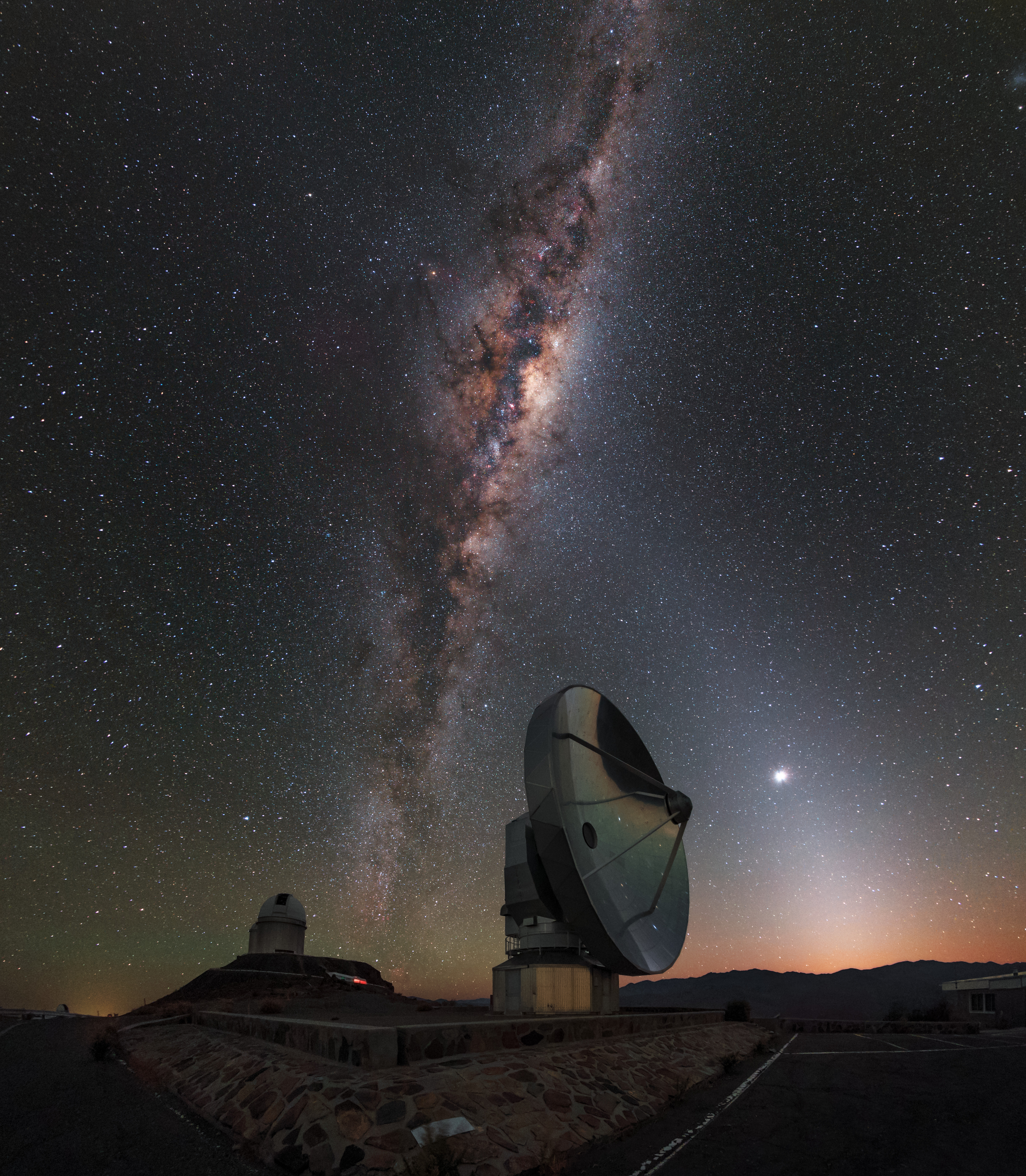 La Silla Dawn Kisses the Milky Way This picture was taken just before dawn at the La Silla Observatory, in outskirts of the Chilean Atacama Desert. A layer of orange hovering over the horizon announces the imminent arrival of the Sun. These first hints of daylight are kissed by the Milky Way, which stretches out across the entire night sky. This view of our home galaxy is covered with dark patches, formed from dust particles blocking the light behind them. In front of this cosmic scenery you can see some of the observatory’s telescopes. The closest is the Swedish–ESO Submillimetre Telescope (SEST), whose dish measures 15 metres across. It was decommissioned in 2003 and replaced by the Atacama Pathfinder EXperiment telescope (APEX) and the Atacama Large Millimeter/submillimeter Array (ALMA). On the plateau in the background stands the ESO 3.6-metre telescope, with the Coudé Auxiliary Telescope (CAT) right behind it. SEST seems to be pointing at an extremely bright object: This is Venus, one of our neighbouring planets. Venus is lit up by the Sun and outshines all of the stars in the night sky. The triangular white glow that reaches up from the horizon through Venus is called zodiacal light. Zodiacal light is sunlight scattered by dust in the ecliptic — the plane of Earth’s orbit around the Sun.